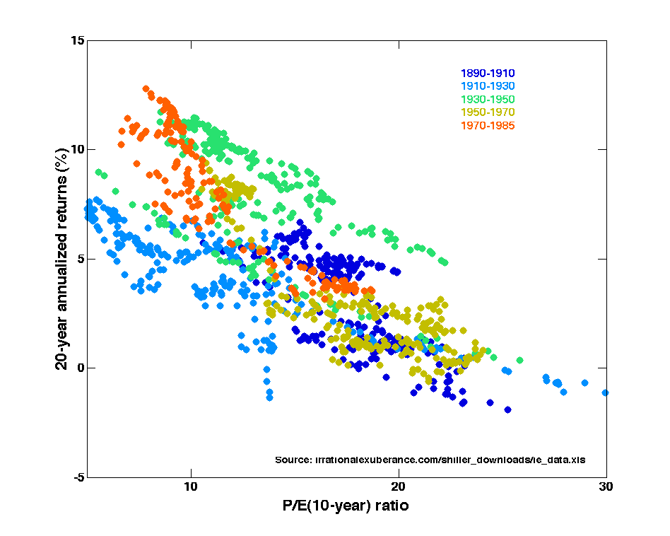 Price-Earnings Ratios as a Predictor of Twenty-Year Returns: A twenty-year modification of the plot by Robert Shiller (Figure 10.1 from Shiller, Robert (2005) Irrational Exuberance (2d ed.), Princeton University Press ISBN 0-691-12335-7) using data from The horizontal axis shows the real price-earnings ratio of the S&P Composite Stock Price Index as computed in Irrational Exuberance (inflation adjusted price divided by the prior ten-year mean of inflation-adjusted earnings). The vertical axis shows the geometric average real annual return on investing in the S&P Composite Stock Price Index, reinvesting dividends, and selling twenty years later. Data from different twenty year periods is color-coded as shown in the key. See also Image:Price-Earnings Ratios as a Predictor of Ten-Year Returns (Shiller Data).png.